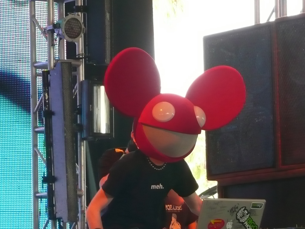 Deadmau5 live at Coachella 2008.